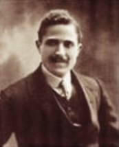 Pietro Barilla Senior (1845-1912), founder of the Barilla company.